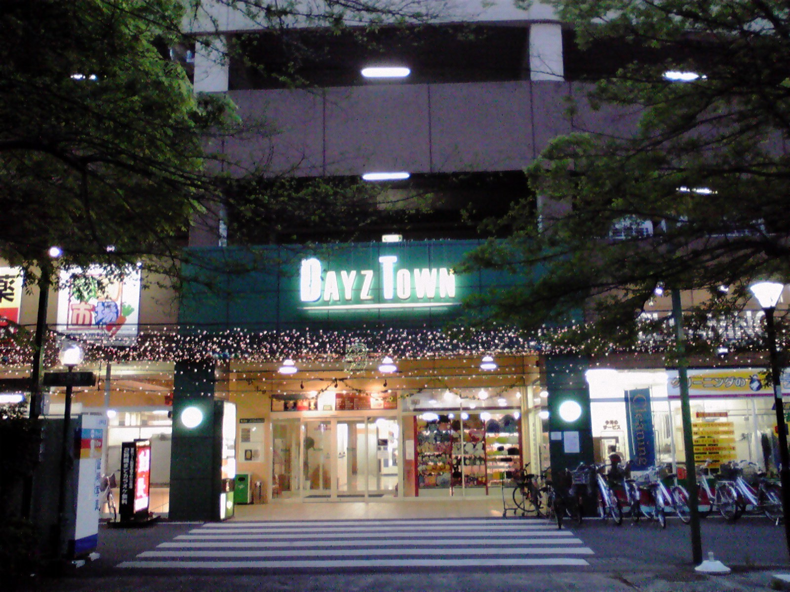 This is a shopping center near Tsukuba station(Ibaraki,Japan).